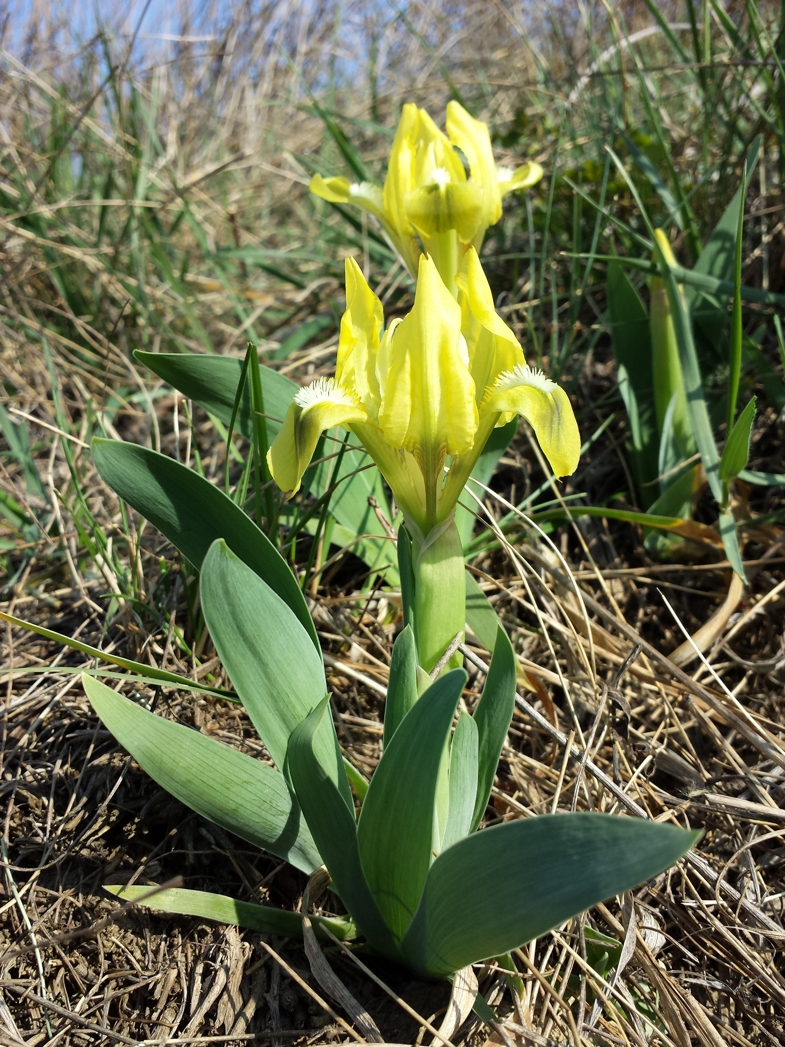 Habitus Taxon: Iris pumila (sensu Fischer et al. EfÖLS 2008 ISBN 978-3-85474-187-9) Location: Haulesbergen, Ulrichskirchen-Schleinbach, district Mistelbach, Lower Austria - ca. 200 m a.s.l. Habitat: Loess slope